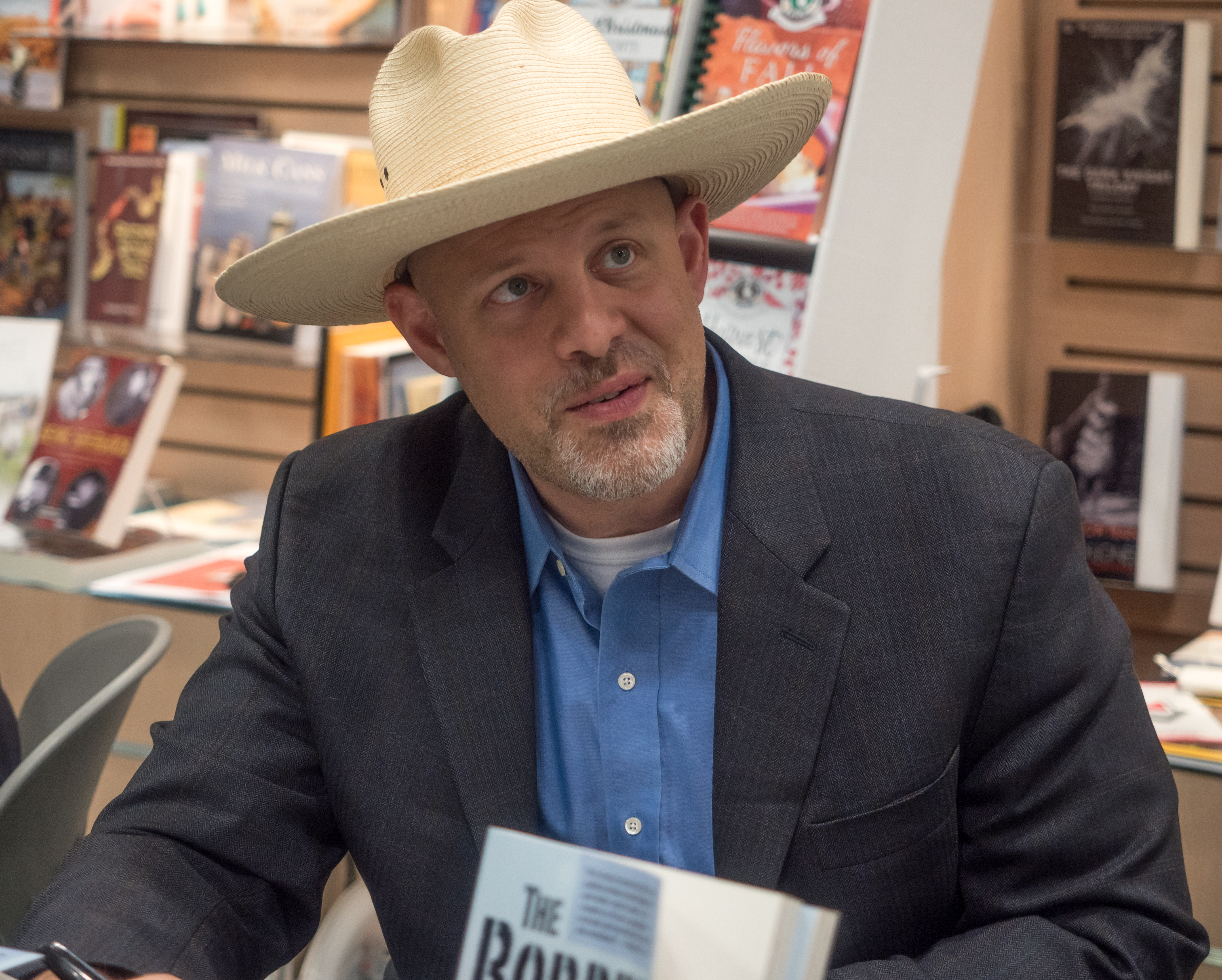 David J. Danelo at BookExpo at the Javits Center in New York City, May 2019.